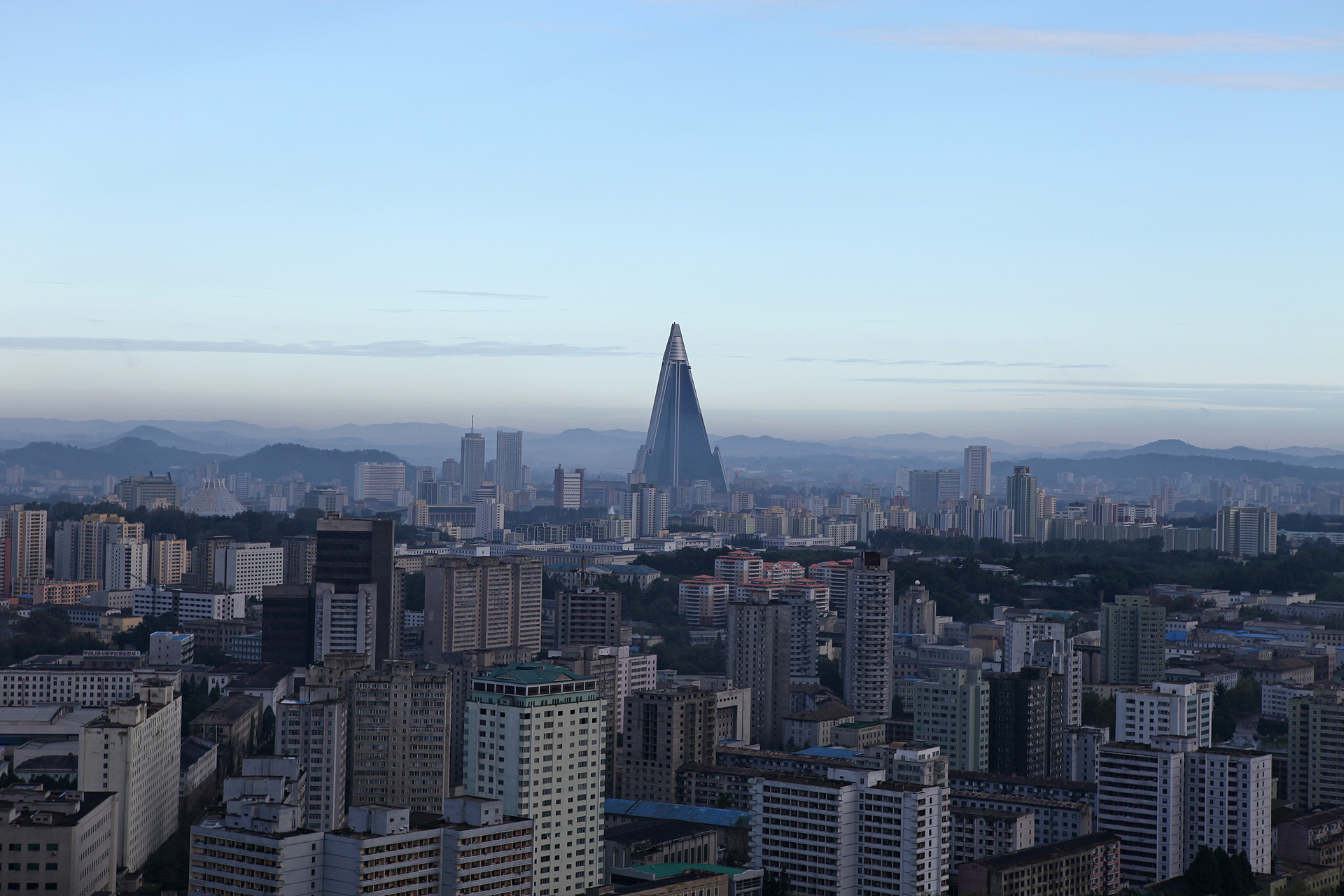 View from Yanggakdo Hotel.